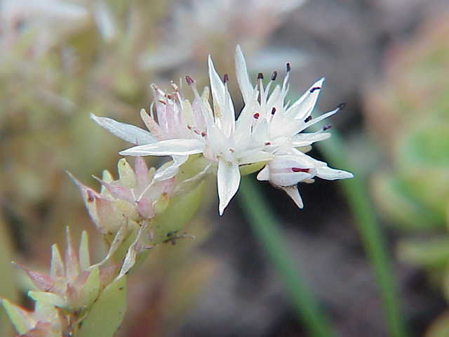 Species: Sedum glaucophyllum Family: Crassulaceae Image No. 3